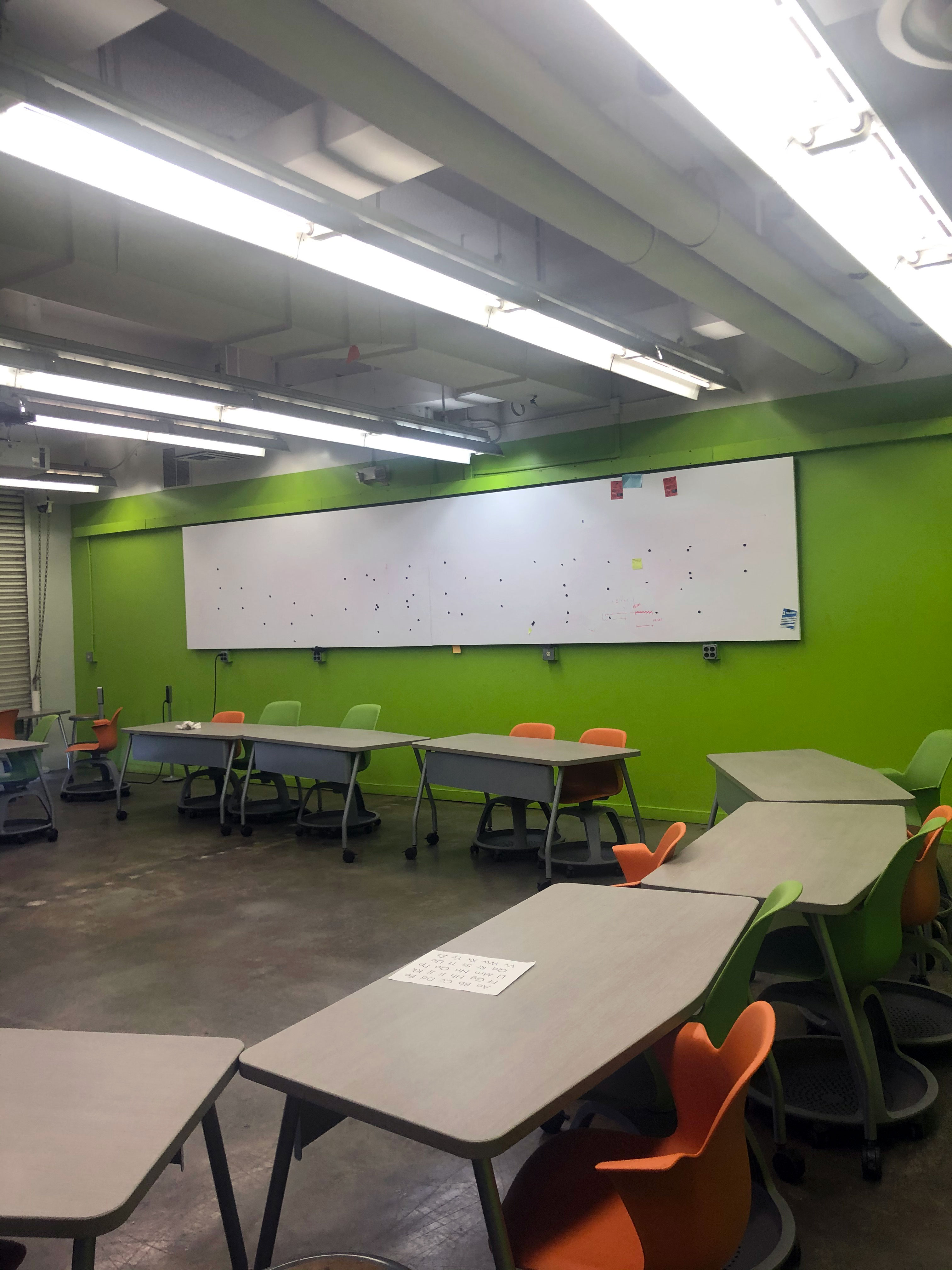 The Green Room, a Steelcase Active Learning center, funded by a Steelcase Education Grant, written by: Professor Sarah Meyer, Associate Professor Melissa Flicker, and Assistant Professor Anthony Acock